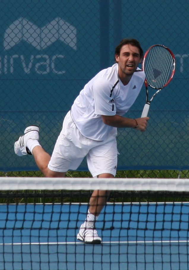 Marcos Baghdatis during practice at the 2009 Brisbane International